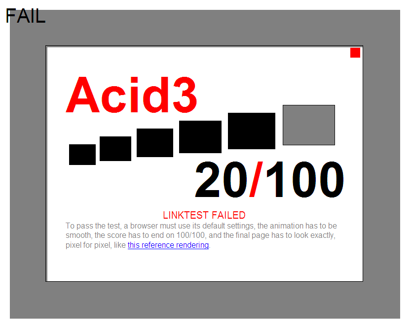 Acid3 test as viewed on Internet Explorer 8 Release Candidate 1. User-Agent: Mozilla/4.0 (compatible; MSIE 8.0; Windows NT 5.1; Trident/4.0; .NET CLR 2.0.50727; .NET CLR 3.0.04506.30; .NET CLR 1.1.4322)